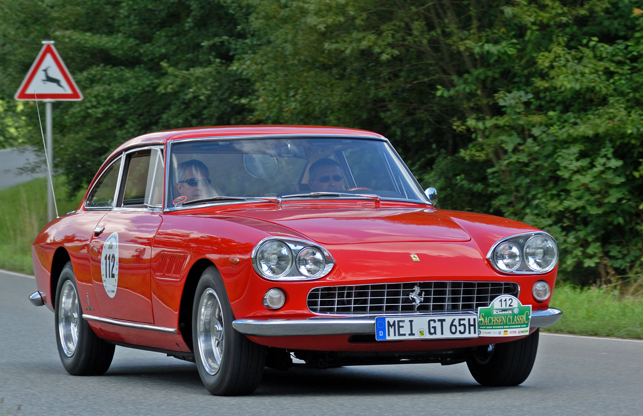 Ferrari 330 GT 2+2 from 1965 during the Saxony Classic Rallye 2010